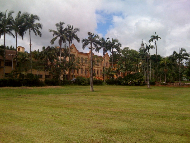 Photo of São Paulo college in Ascurra